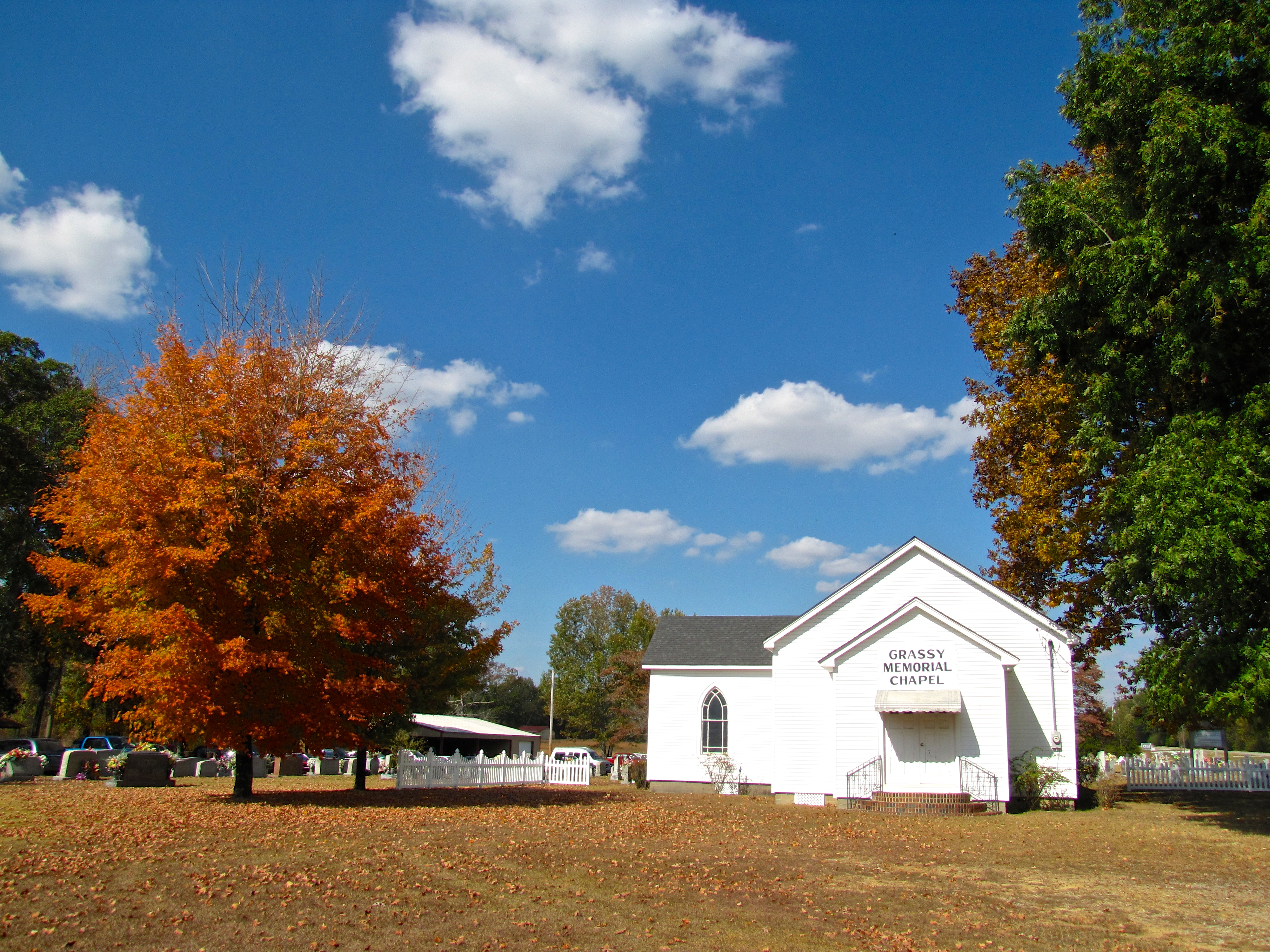 Grassy Memorial Chapel and Cemetery in the Grassy community of Lauderdale County, Alabama, United States.